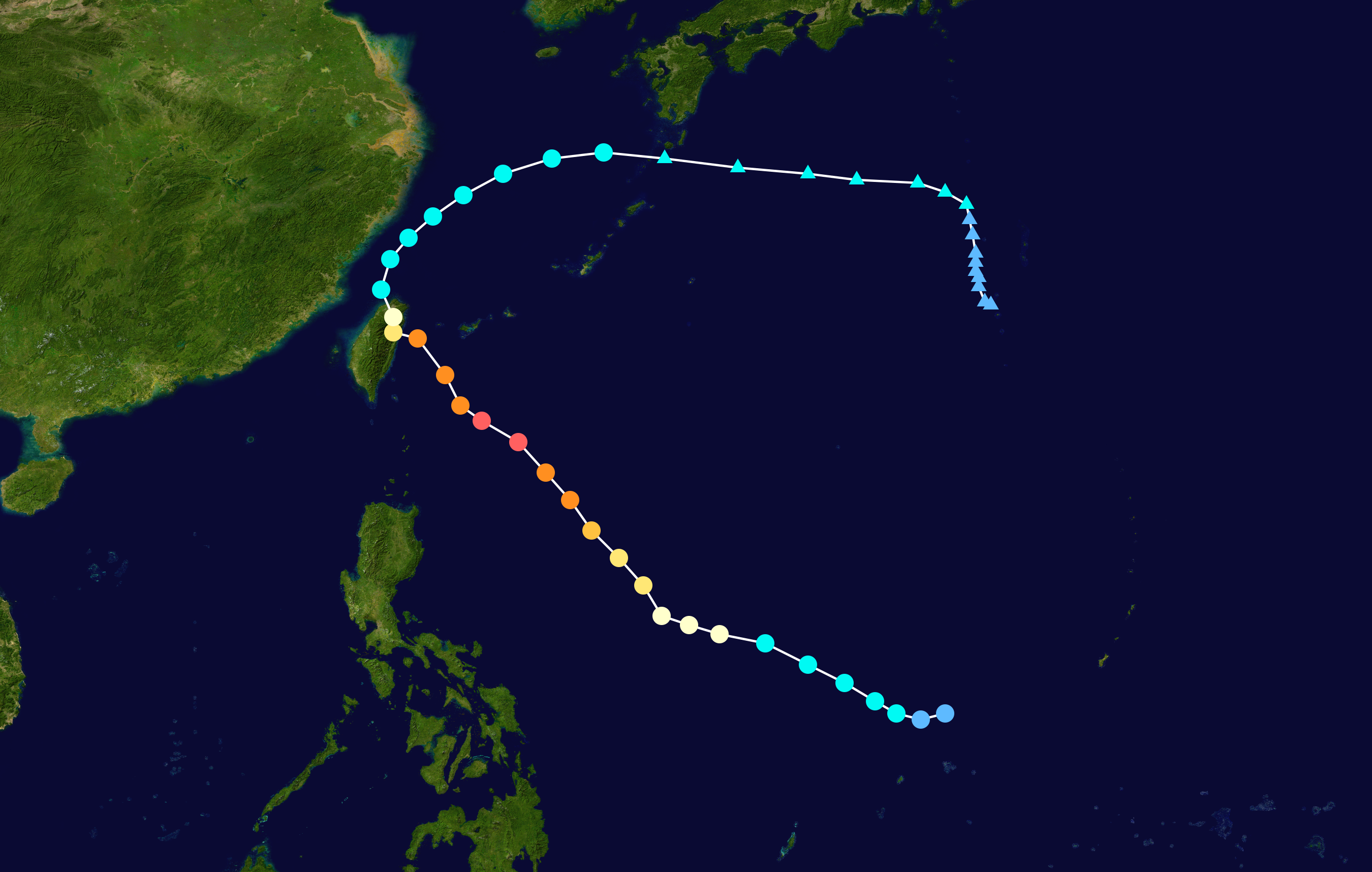 Track map of Typhoon Jangmi (2008) of the 2008 Pacific typhoon season. The points show the location of the storm at 6-hour intervals. The colour represents the storm's maximum sustained wind speeds as classified in the Saffir–Simpson scale (see below), and the shape of the data points represent the nature of the storm, according to the legend below. Saffir–Simpson scale Tropical depression≤38 mph≤62 km/h Category 3111–129 mph178–208 km/h Tropical storm39–73 mph63–118 km/h Category 4130–156 mph209–251 km/h Category 174–95 mph119–153 km/h Category 5≥157 mph≥252 km/h Category 296–110 mph154–177 km/h Unknown Storm type Tropical cyclone Subtropical cyclone Extratropical cyclone / Remnant low / Tropical disturbance / Monsoon depression